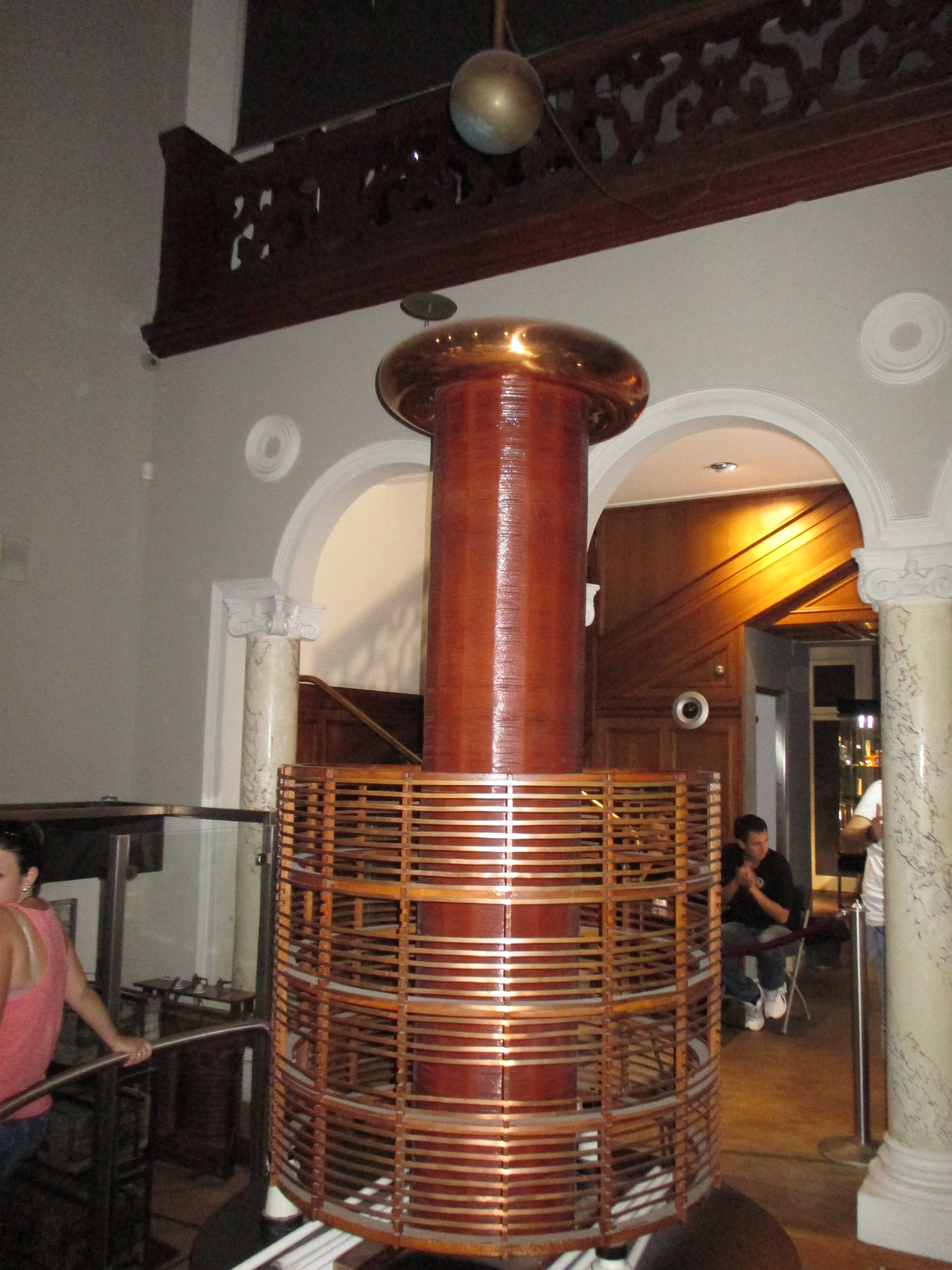 Nikola Tesla Museum, Belgrade